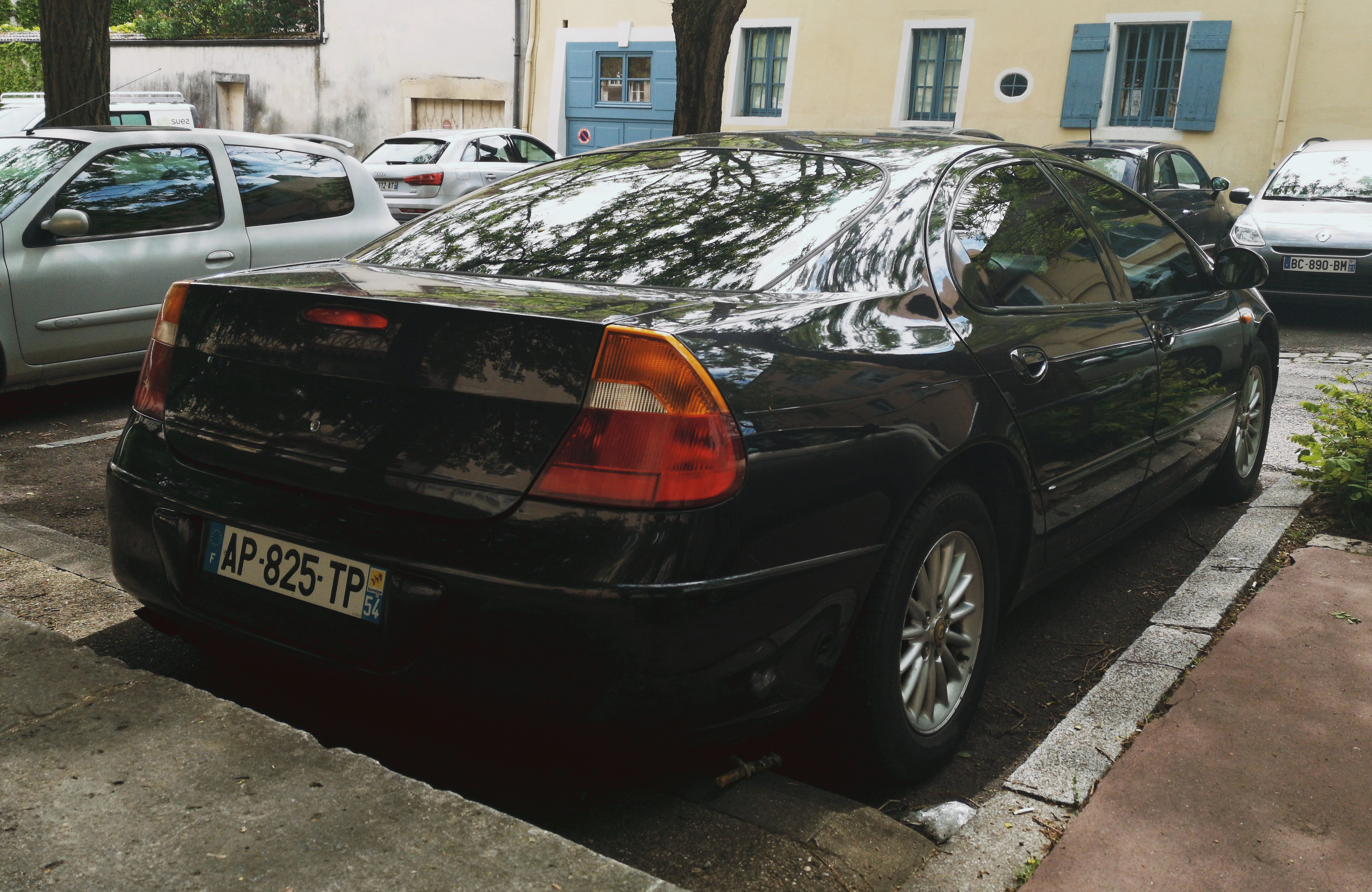 1999 Chrysler 300M (V6 2.7 203 hp) at Chalon sur Saône